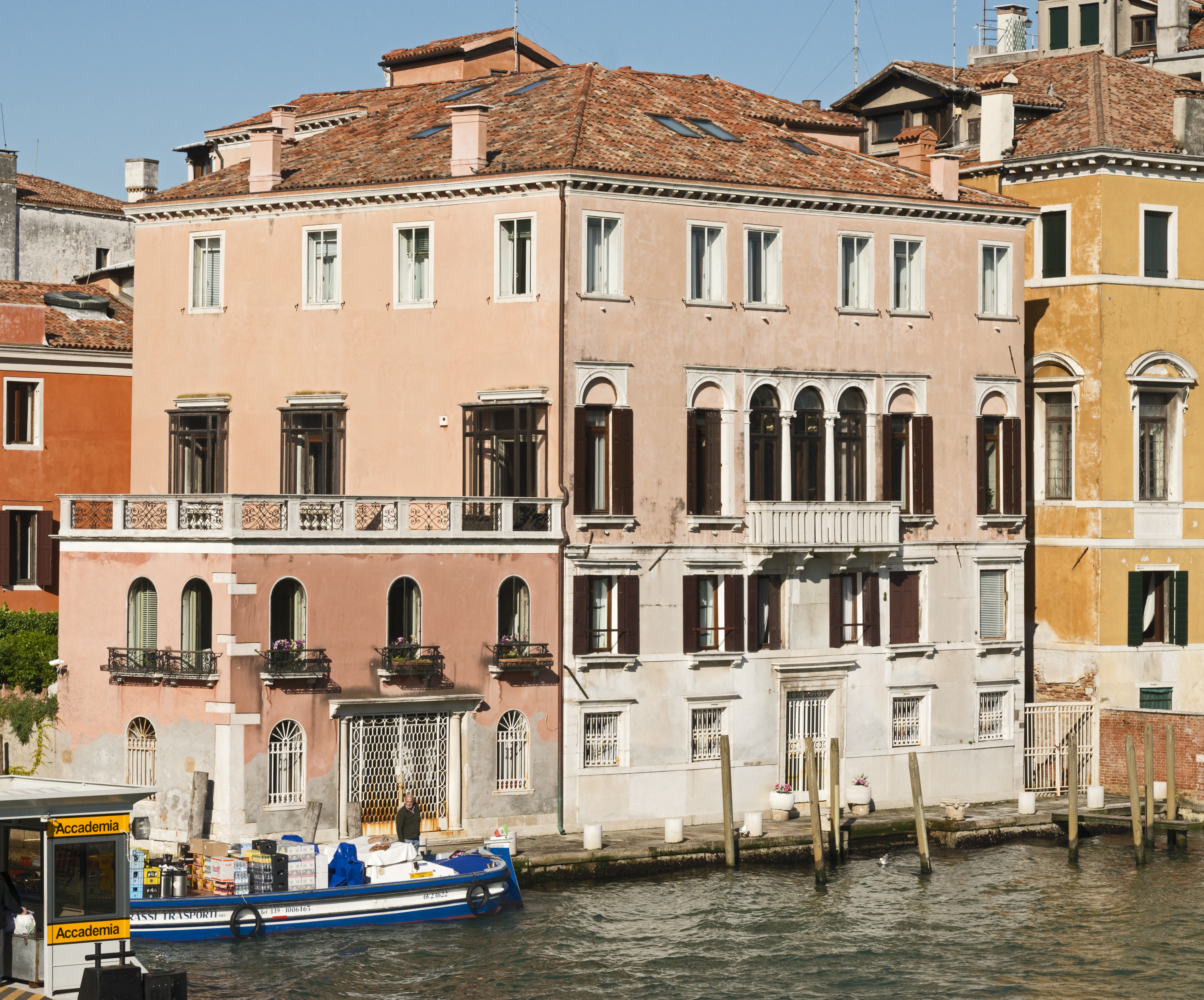 Palazzo Querini Vianello, facade on Grand Canal. Venice.